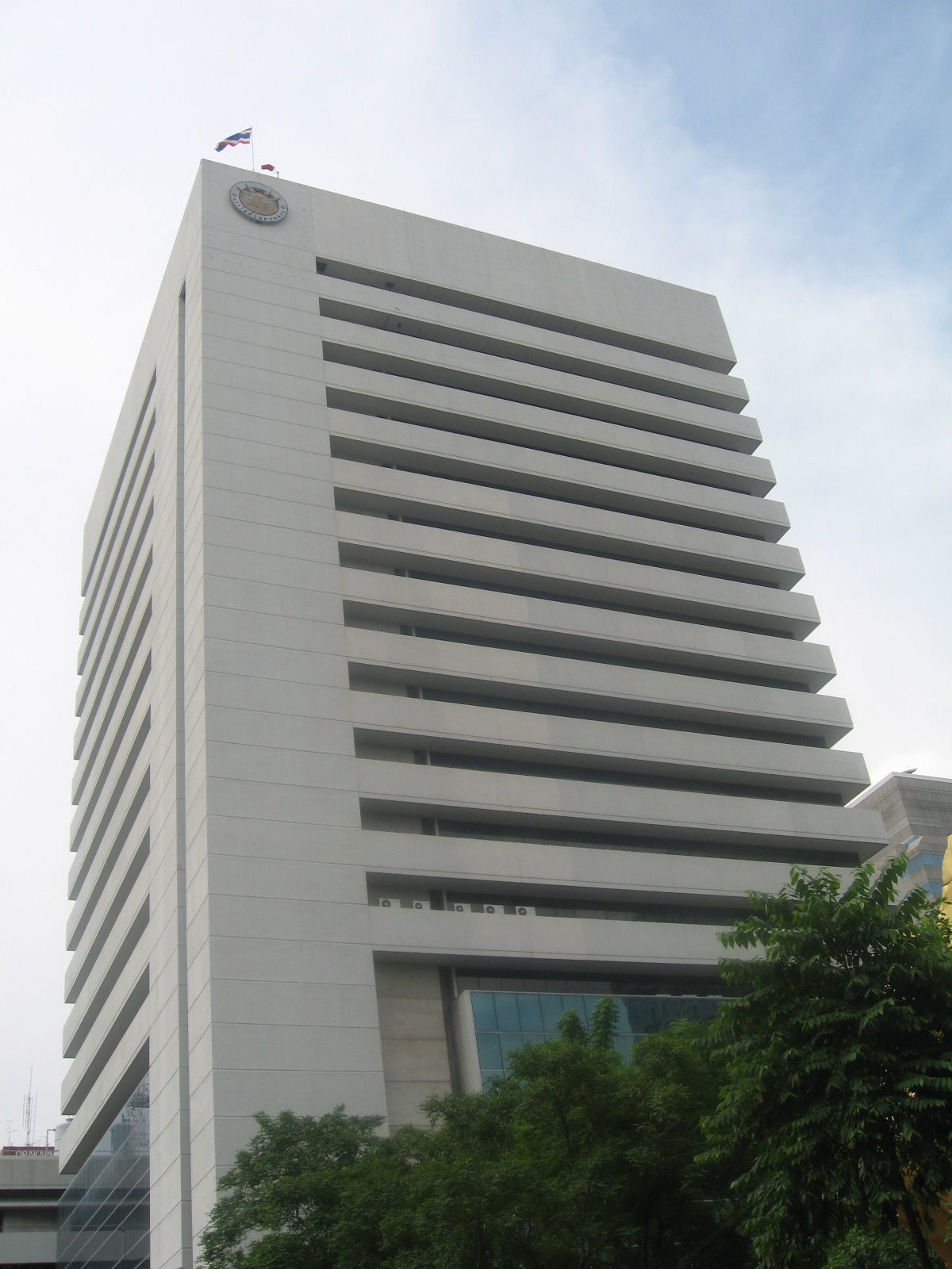 Metropolitan Electricy Authority Building.